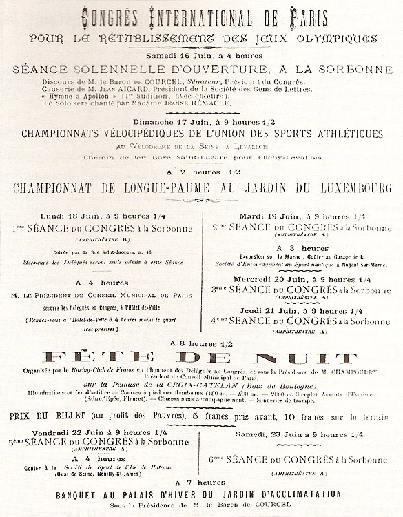 schedule of the first Olympic Congress 1894 pamphlet, adapted reproduction, no restrictions on use Copyright: free of charges